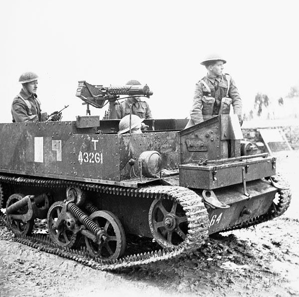 LAC caption : Unidentified personnel of the Saskatoon Light Infantry (M.G.) in a Universal Carrier equipped with a Vickers machine gun, Italy